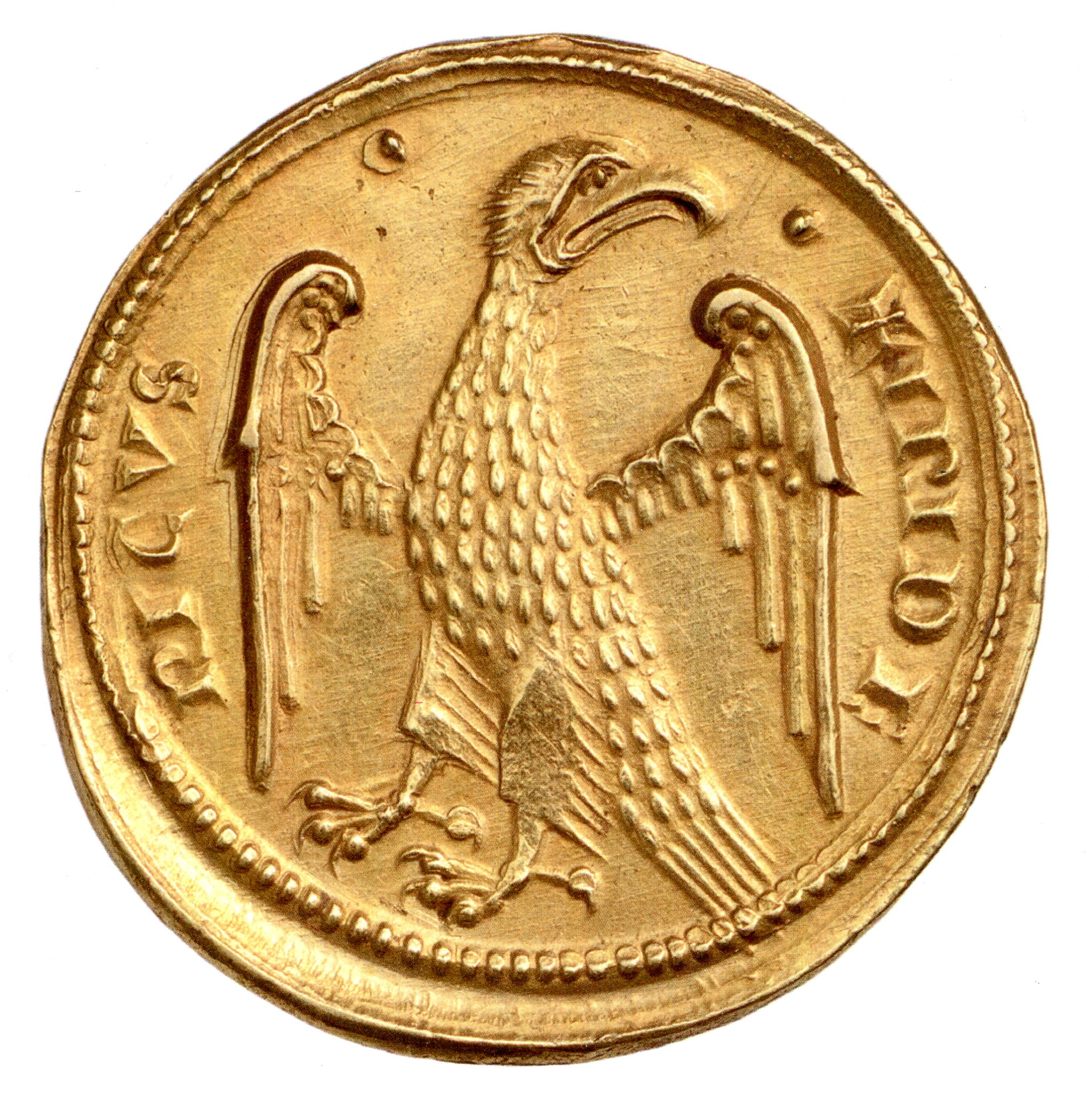 Frederician augustale minted at Brindisi (rev.)